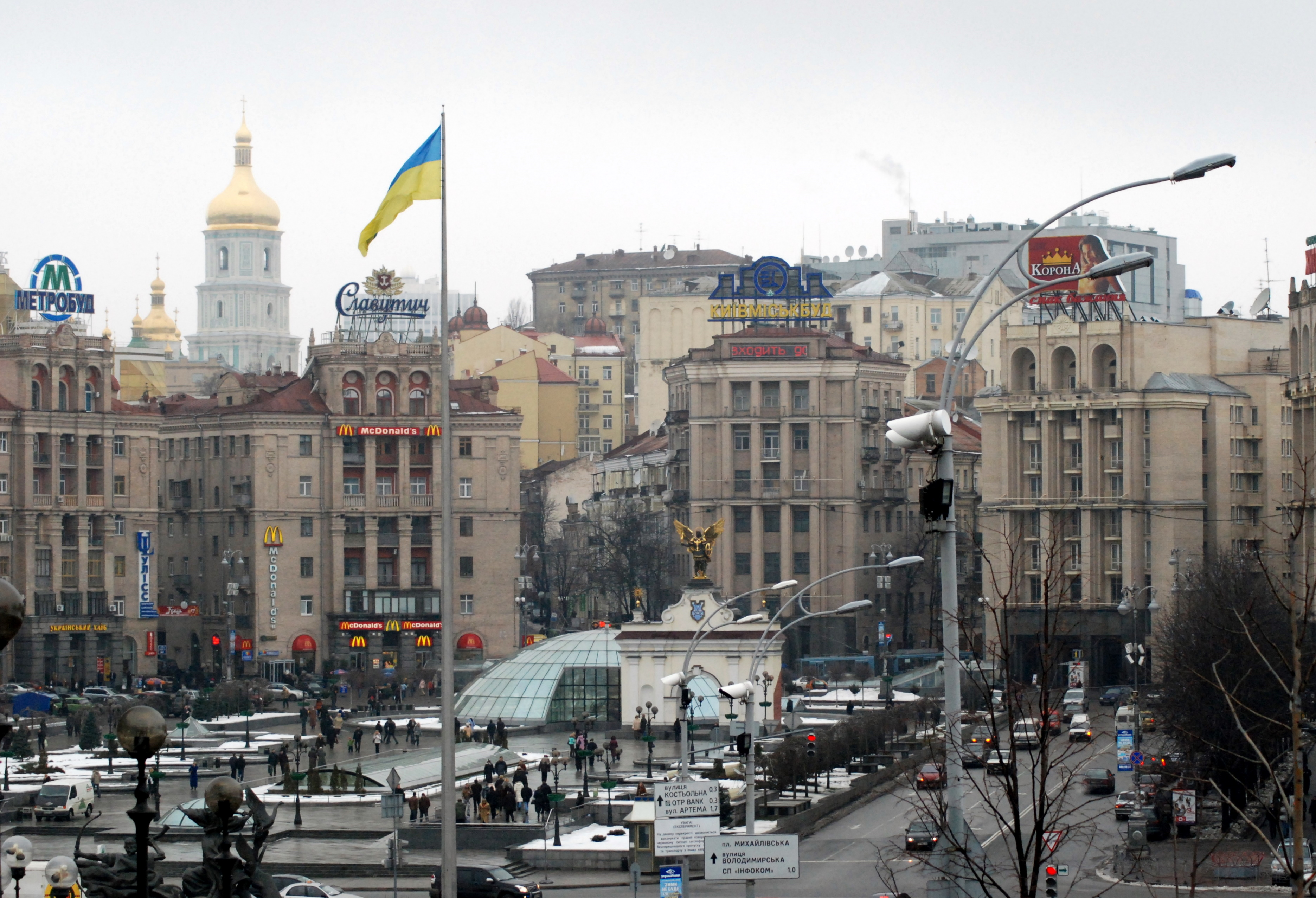 Kiev's Maidan Nezalezhnosti as seen from the Institutskaya Str.